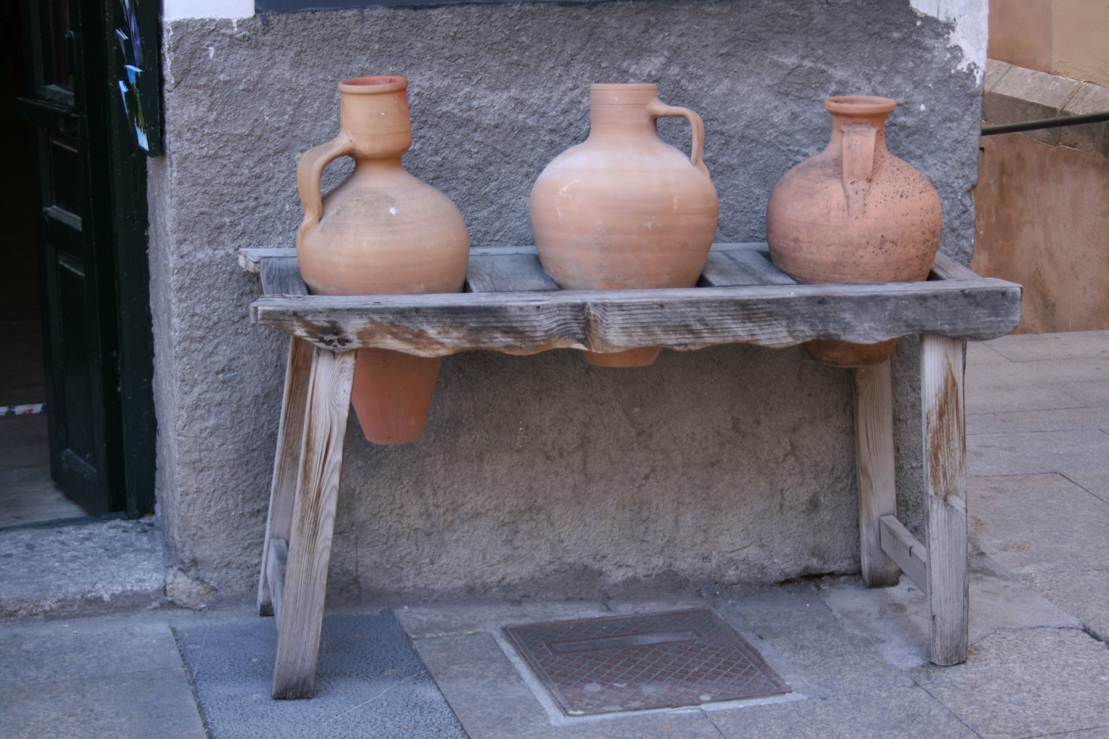 Pitchers of the pottery of Spanish traditional water in its support of wood ('cantarera').